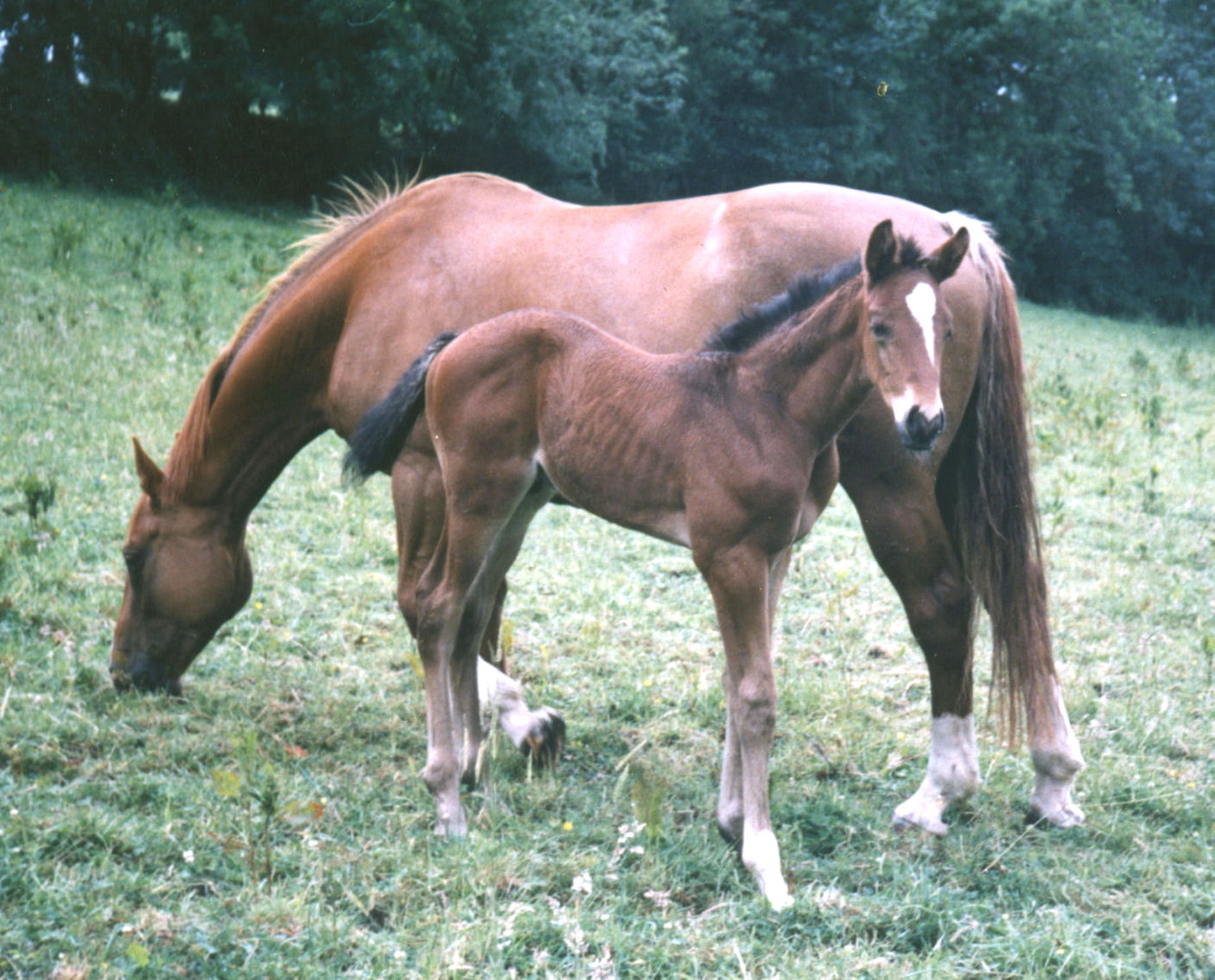 Irish Sport Horse foal and mare